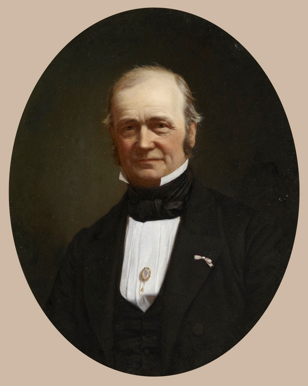 Portrait painting of Adolph Valentiner